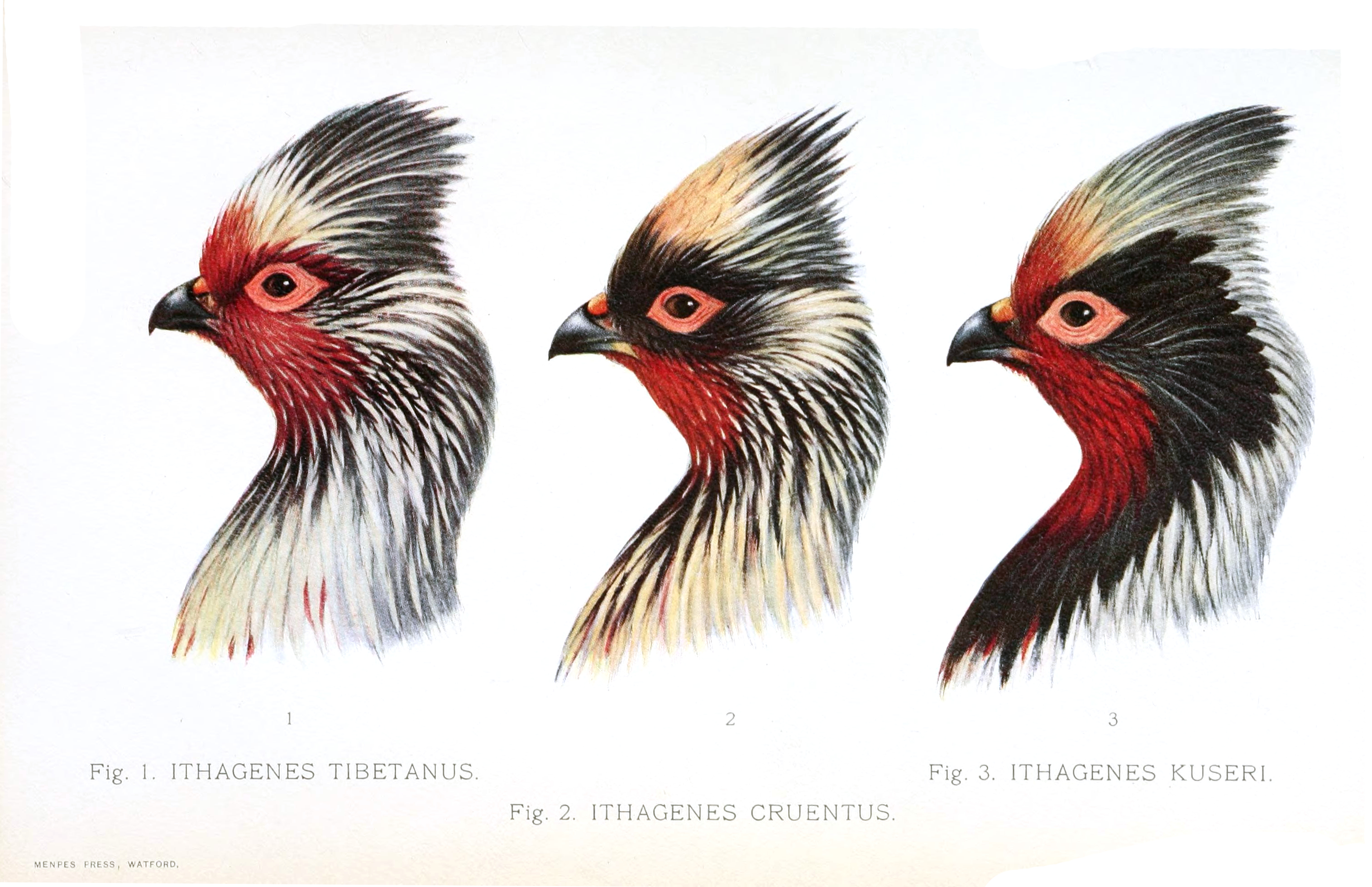 Heads of Ithaginis subspecies